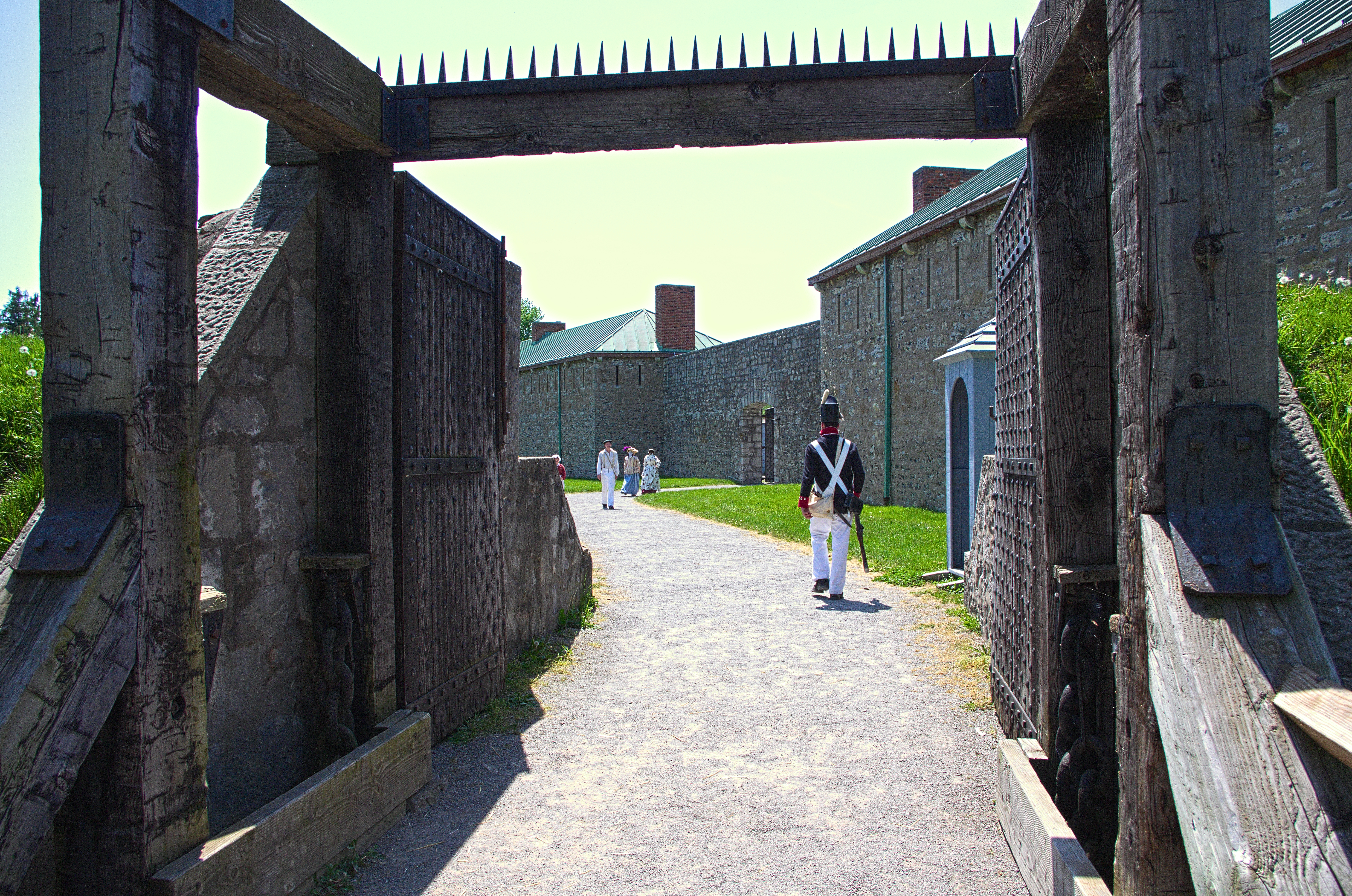 Fort Erie National Historic Site of Canada National Historic Site of Canada